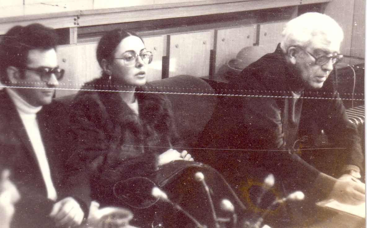 Gathering of the Armenian Community in Bulgaria to discuss Varban Stamatov's publication of "With a boat to Ararat"